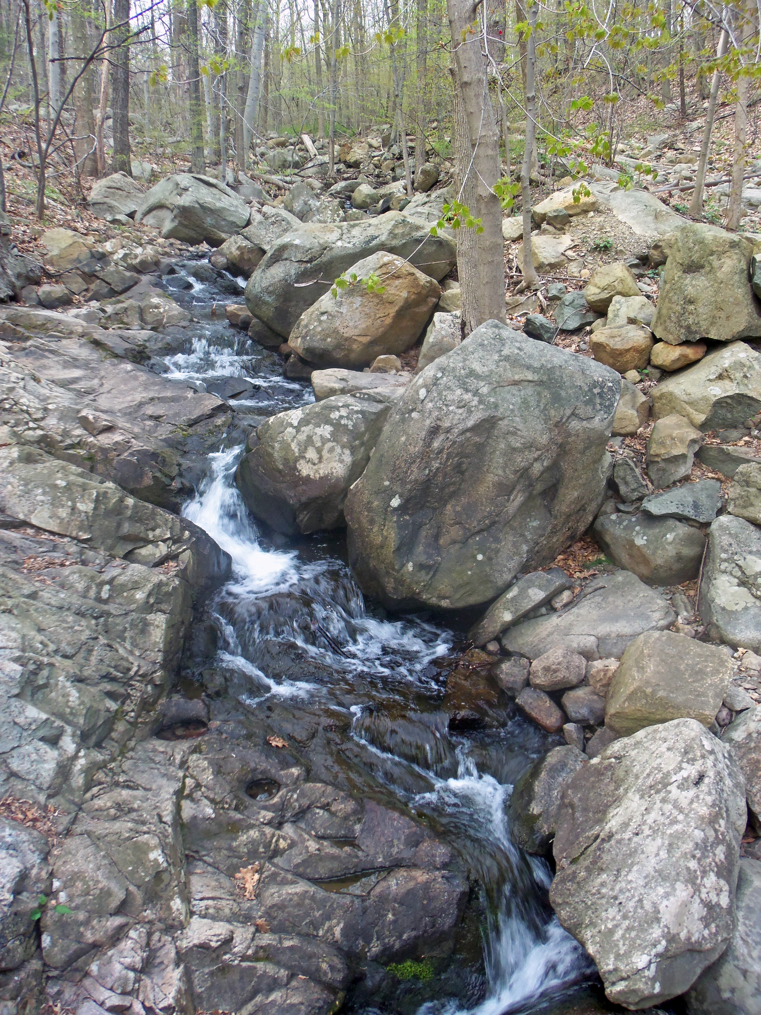 Cascade on Breakneck Brook from the bridge that carries the Undercliff Trail over it.